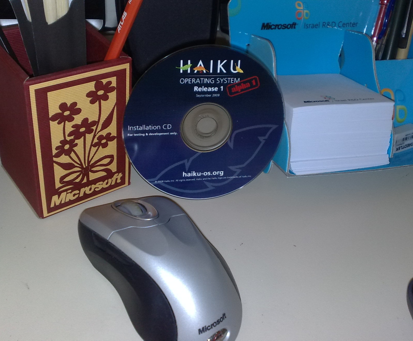 Official Haiku OS R1 Alpha 1 CD. The picture was taken inside of the Microsoft Research & Development center, Haifa, Israel.